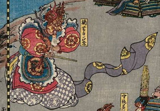 "Kusunoki Tatewaki Masasue" from Kusunoki Masashige Appreciates a Performance of Music and Song at the Chihaya Castle